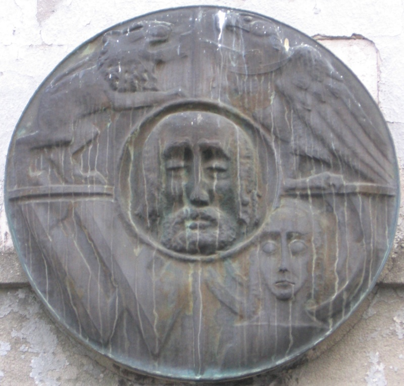 Wrocław, Poland Coat of arms of the city on the wall of building (Podwale Street) just near Sikorski Bridge